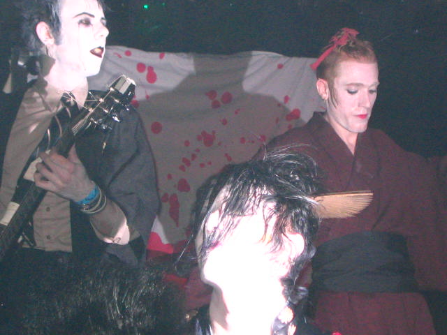 Information| Cinema Strange |Description = Cinema Strange at Drop Dead Festival II |Source = self-made |Date ="created 4. Sept. 2004" |Author = Jason Vonderau--~~~~ |Permission = I, the owner of this photo give permission to use. '